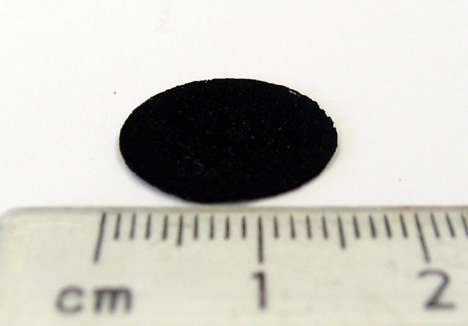 Buckypaper synthesised via frit compression in methanol